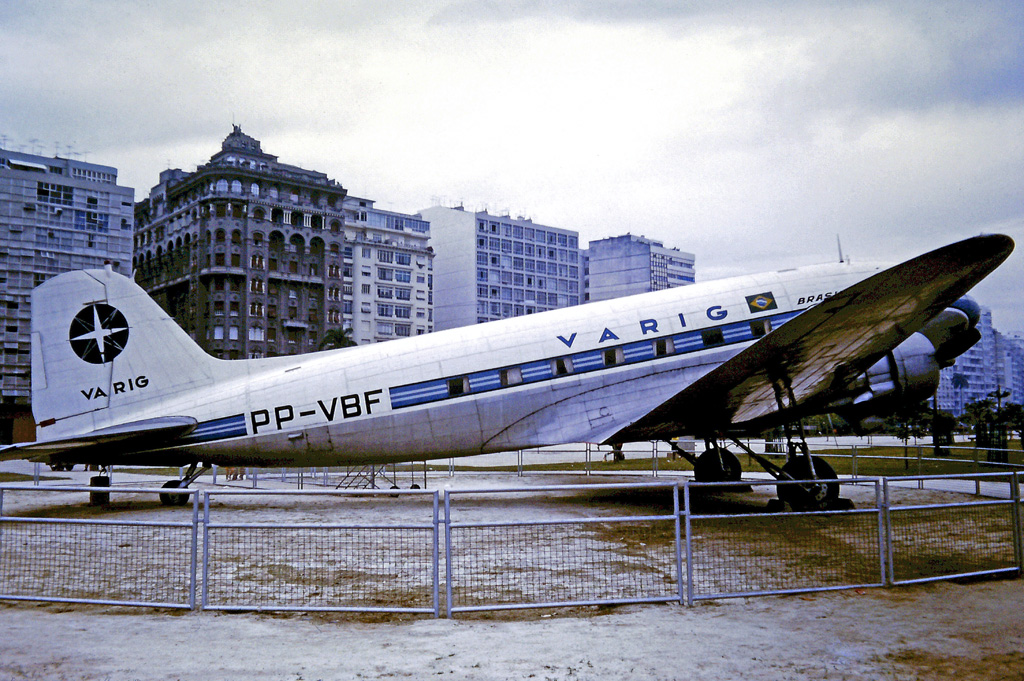 Varig Douglas C-47A (DC-3) in Rio de Janeiro in 1975